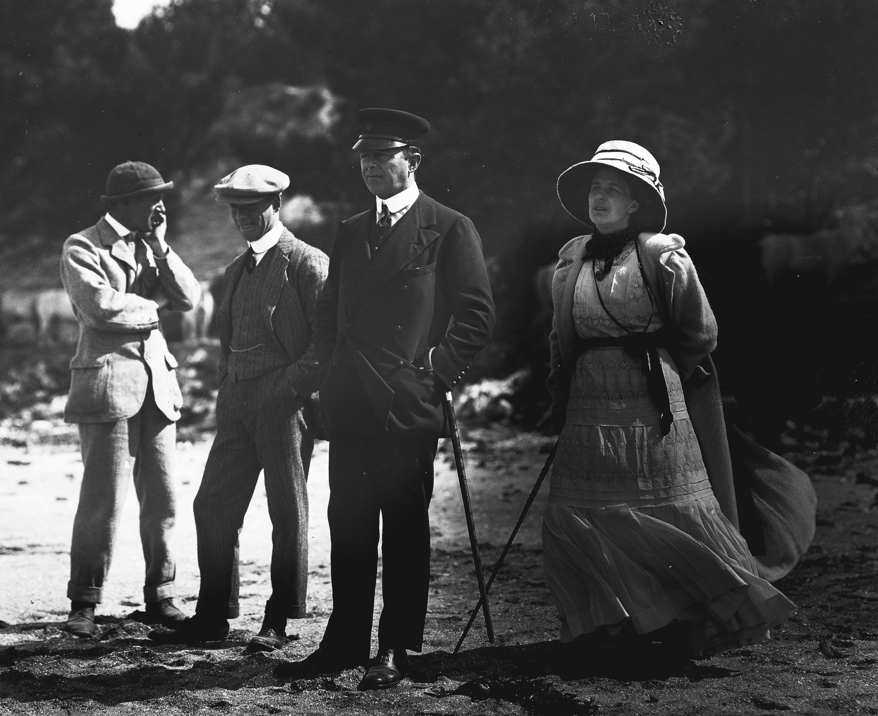 Robert Falcon Scott and his wife Kathleen, on Quail Island in Lyttelton Harbour, New Zealand, 1910. The 2 men on the left are unidentified.